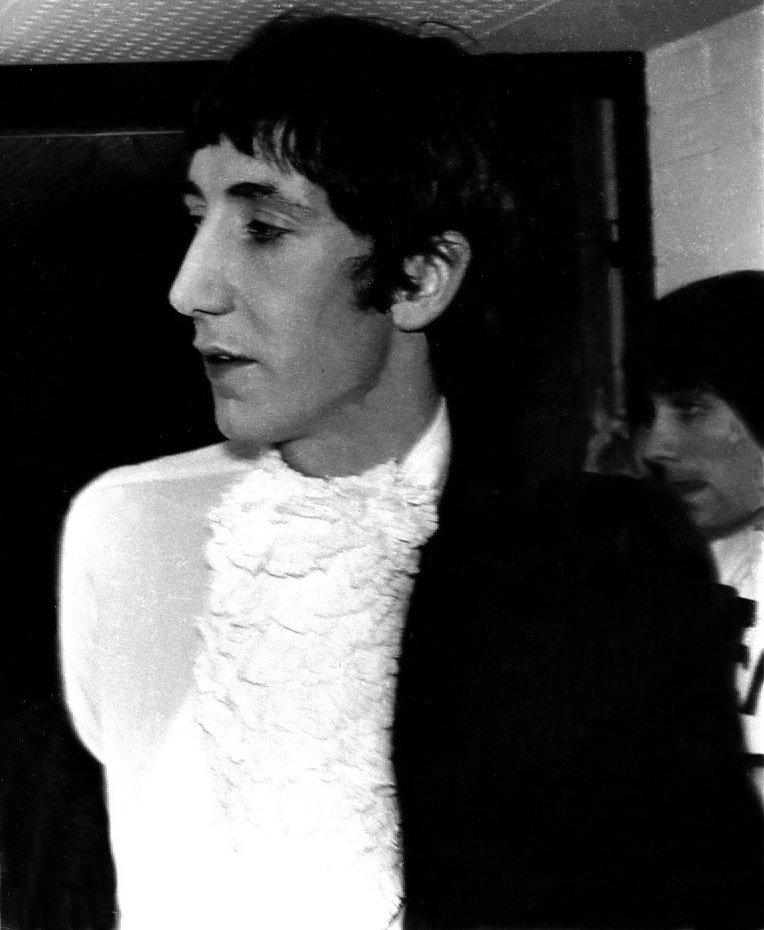 1967 - The Who - Pete Townshend (and Keith Moon in the rear). The boys backstage before their gig in Ludwigshafen, Germany.